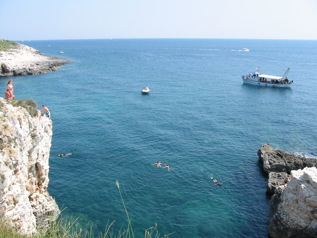 Coast of Cape Kamenjak - Istria, Croatia.